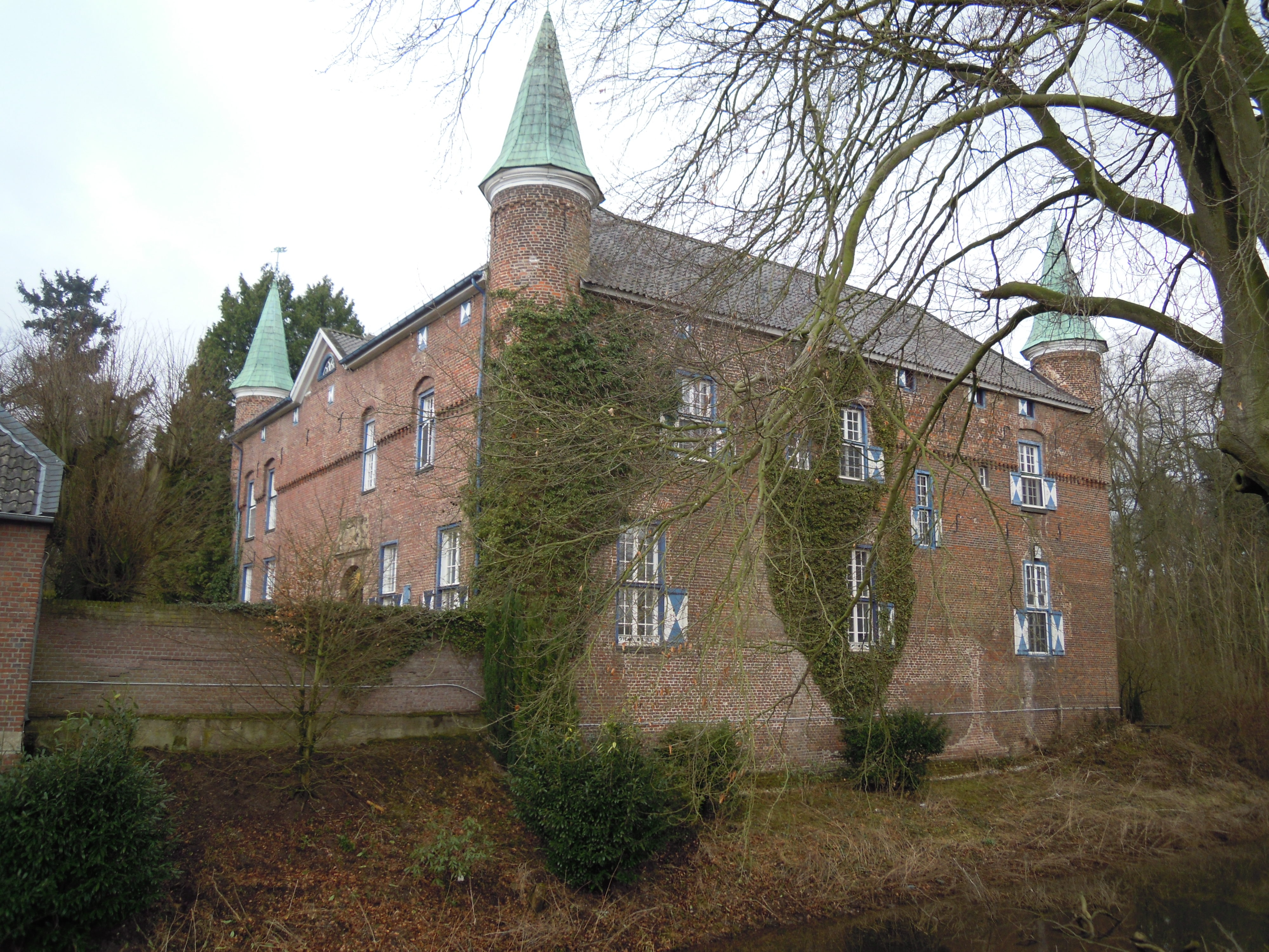 Walbeck Castle (Schloss Wallbeck)